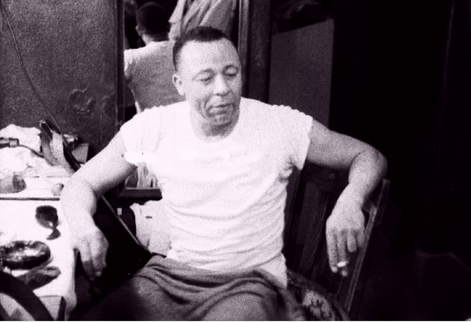 Peg Leg Bates, back stage after his performance at the Denver MDA Marathon, in the Denver Colosseum, December, 1954.